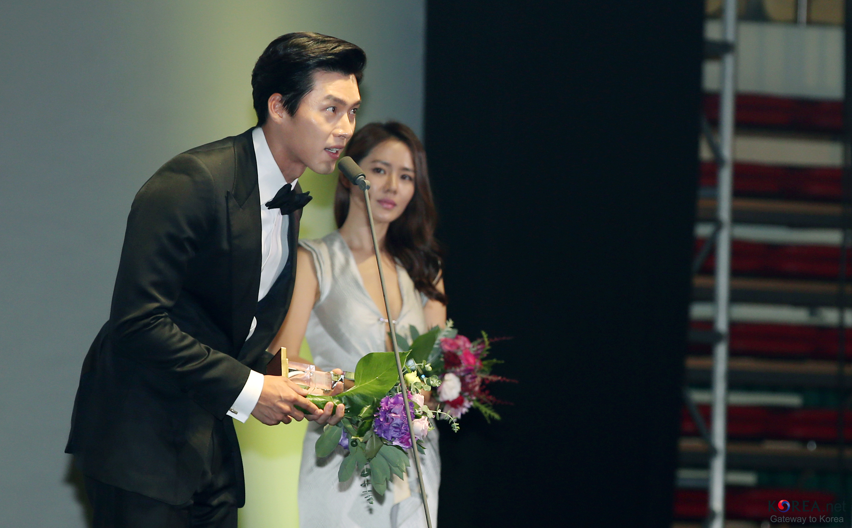 18th Puchon International Fantastic Film Festival (Pifan) Hyun Bin (left) speaks after receiving a Producers’ Choice Award during the opening ceremony of Pifan on July 17. July 17, 2014 Bucheon, Gyeonggi-do -Related Article- -Cheong Wa Dae- Film festival kicks off in Bucheon - -English- Film festival kicks off in Bucheon -日本語- 自主映画の祭典「第18回富川国際ファンタスティック映画祭」が開幕 Ministry of Culture, Sports and Tourism Korean Culture and Information Service ( Official Photographer: Jeon Han This official Republic of Korea photograph is being made available only for publication by news organizations and/or for personal printing by the subject(s) of the photograph. The photograph may not be manipulated in any way. Also, it may not be used in any type of commercial, advertisement, product or promotion that in any way suggests approval or endorsement from the government of the Republic of Korea. If you require a photograph without a watermark, please contact us via Flickr e-mail. 제18회 부천국제판타스틱영화제(Pifan) 17일 제18회 부천국제판타스틱영화제 개막식에서 ‘프로듀서초이스상’을 수상한 배우 현빈이 수상소감을 밝히고있다. 2014-07-17 부천체육관(경기도 부천시 원미구 중동) 문화체육관광부 해외문화홍보원 코리아넷 전한